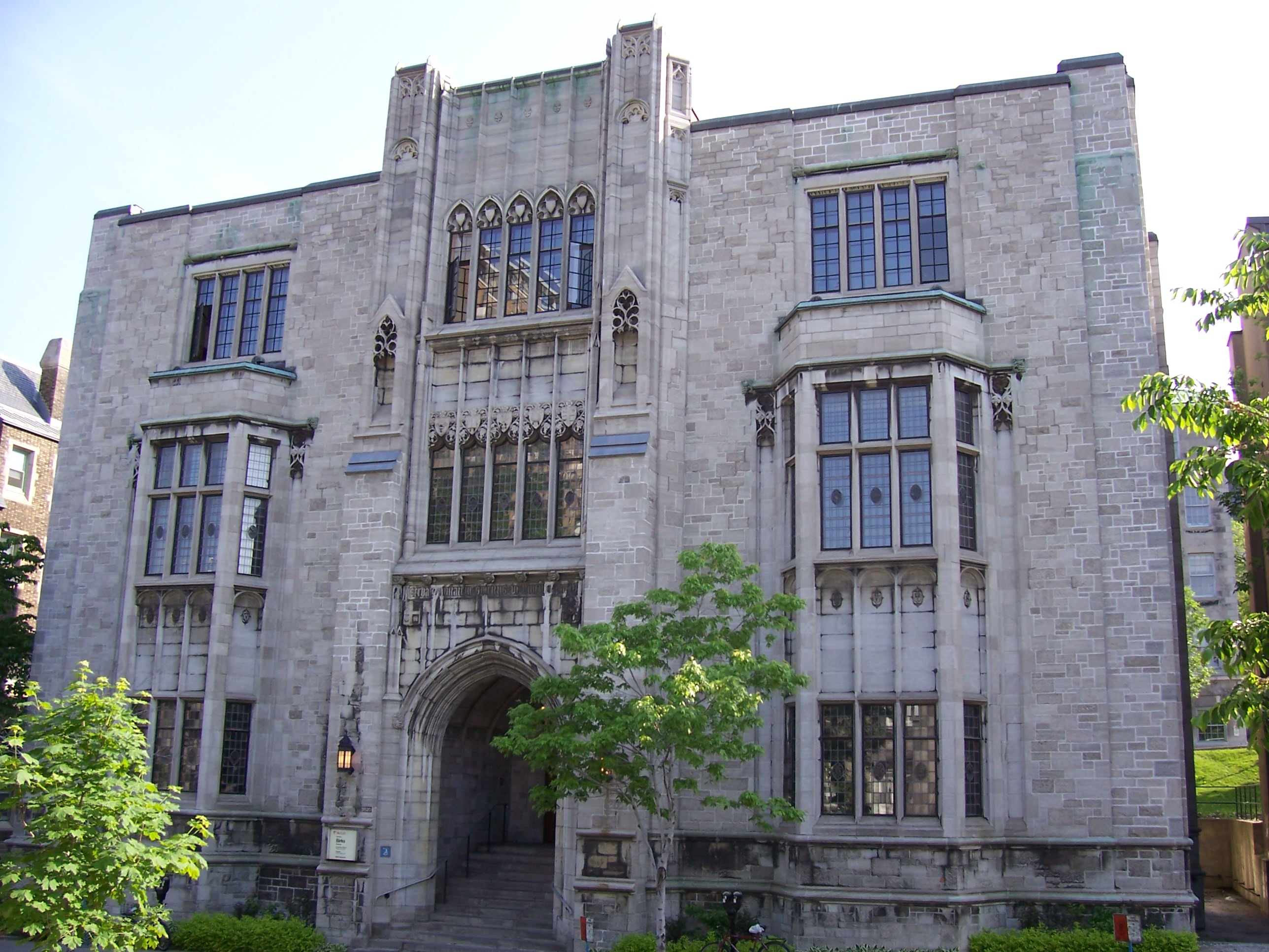 The Henry Birks Building on the McGill University downtown campus, in Montreal, Quebec, Canada. Photo taken by en.wikipedia user Beltz.